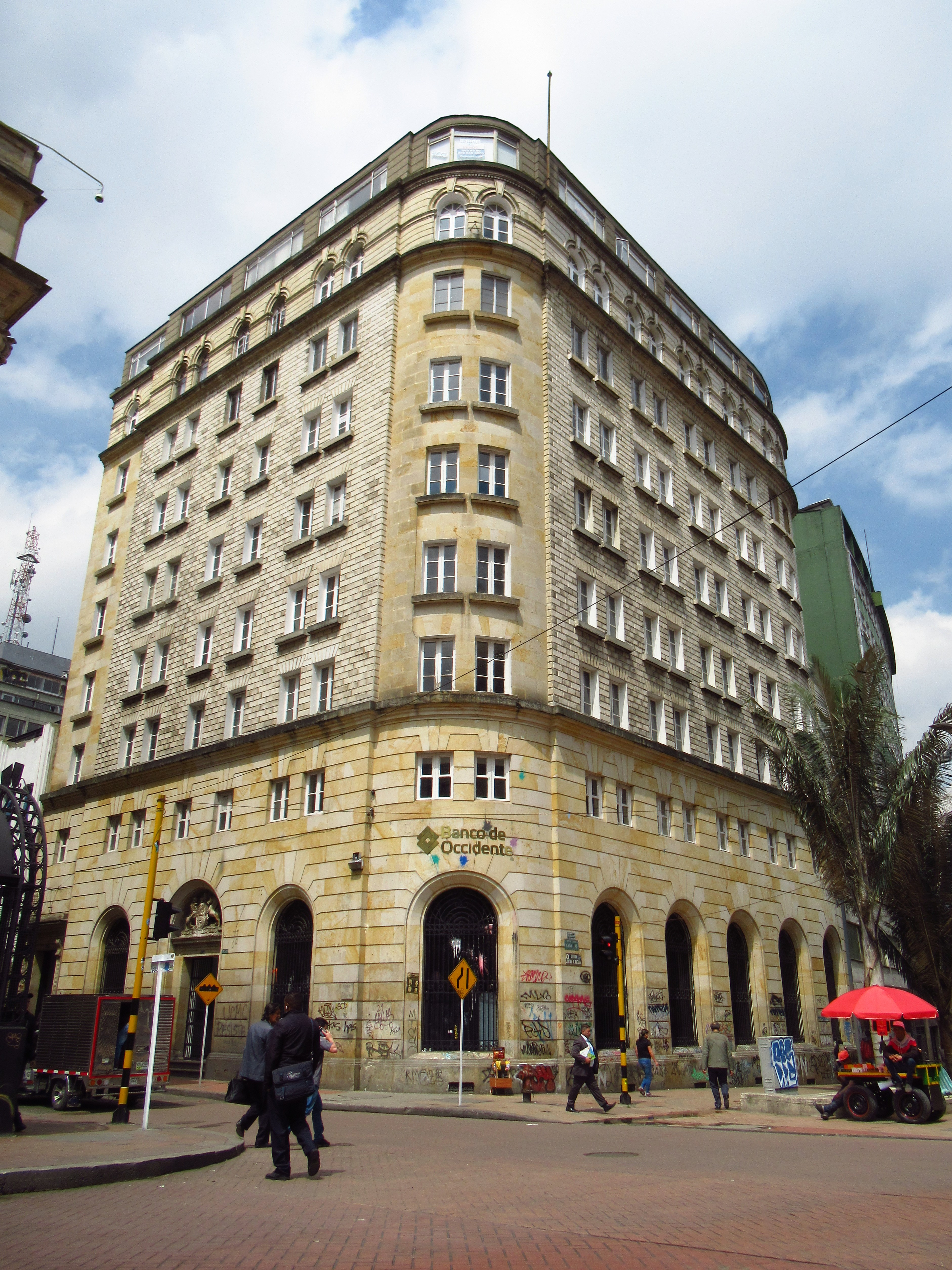 Edificio Cubillos